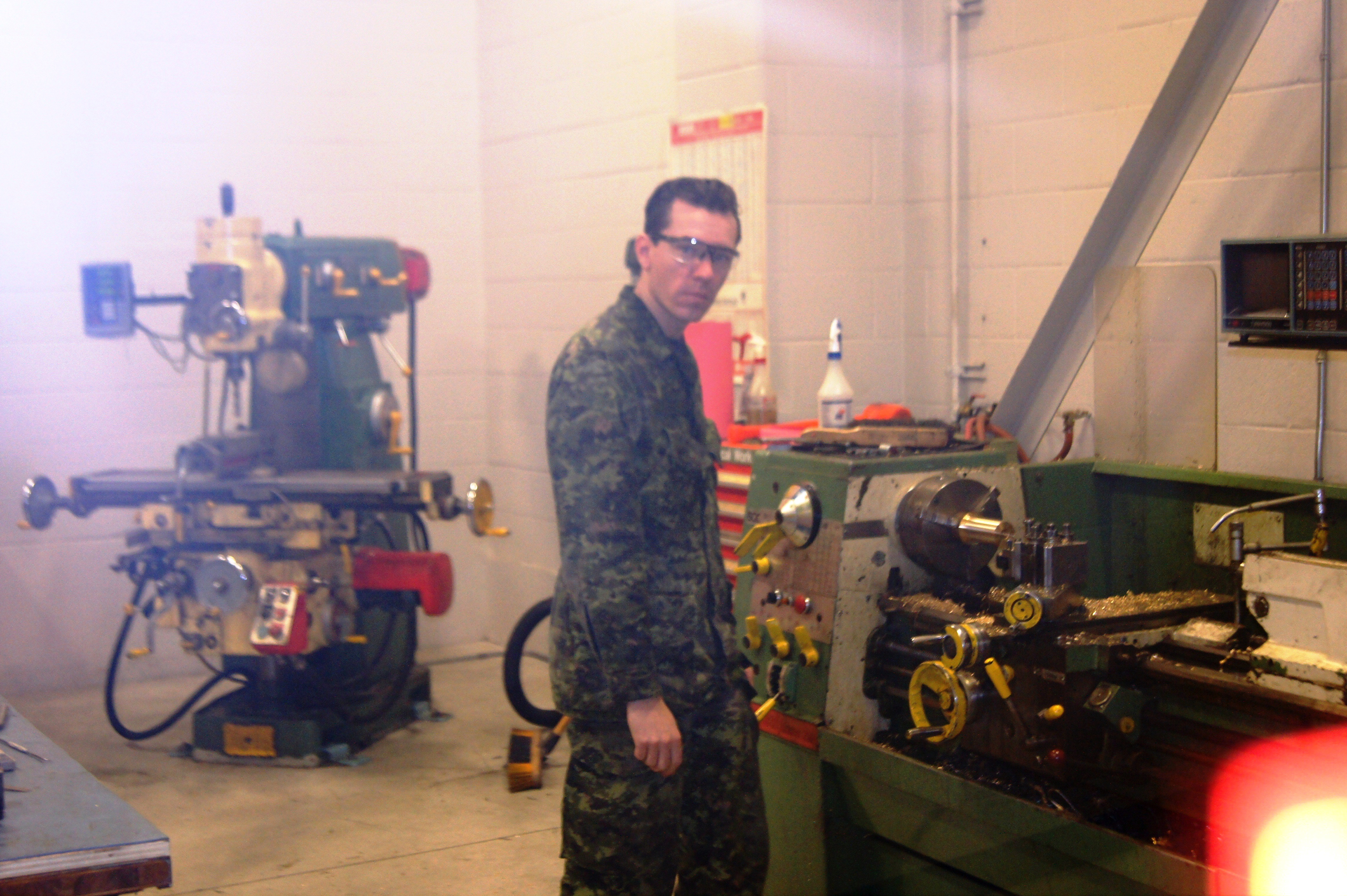 Cpl Mike Carr in the Machine Shop